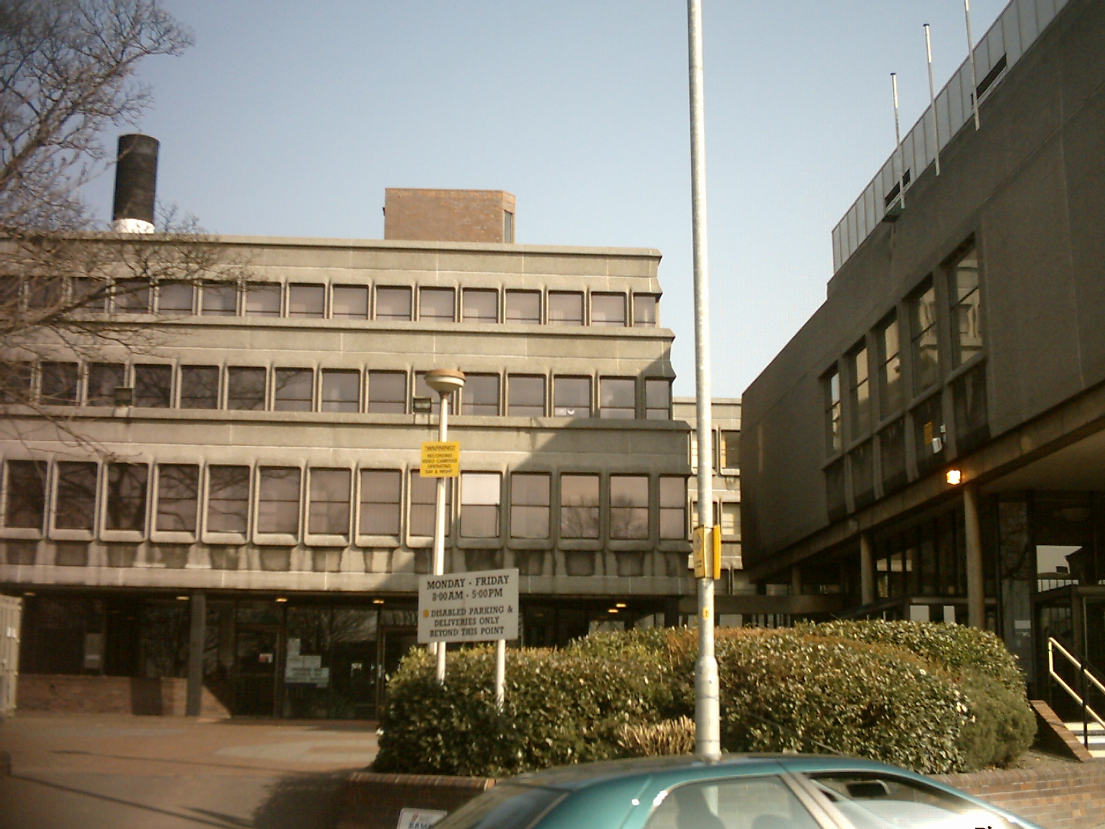 Castleford Civic Centre, Castleford, West Yorkshire, UK